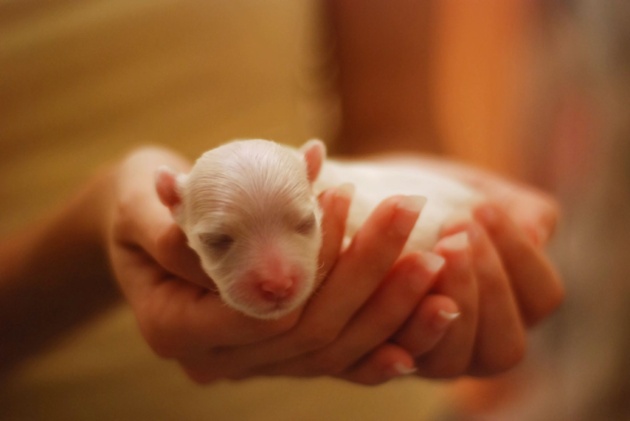 My little angel, 3 days old